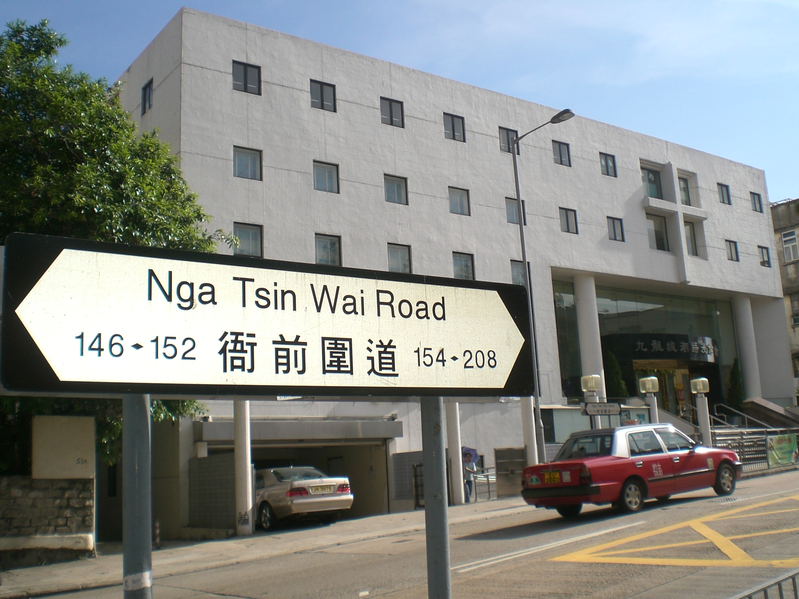 香港潮州浸信會, 衙前圍道, Nga Tsin Wai Road, Kowloon City.